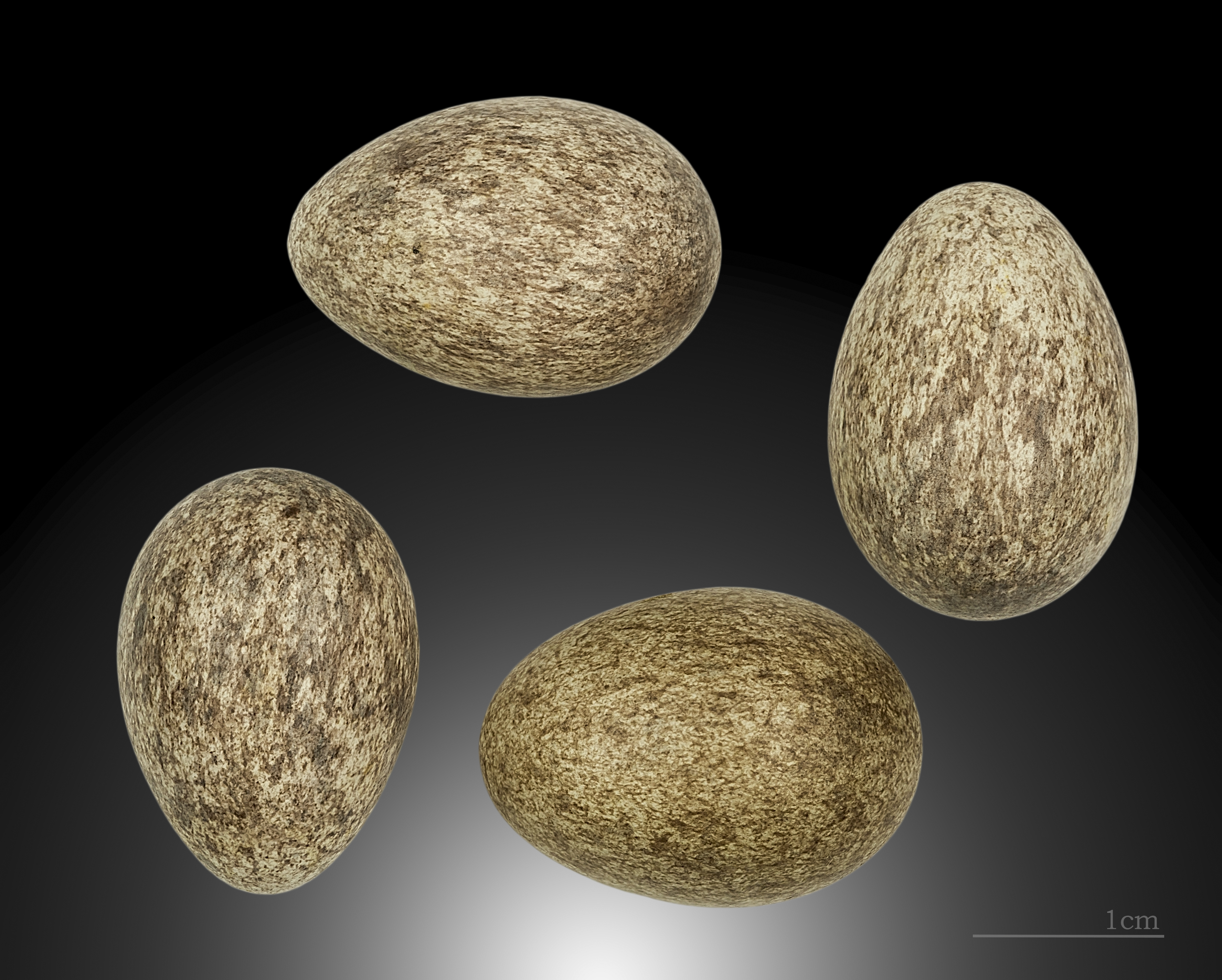 Egg of Dead Sea Sparrow . Collection of Jacques Perrin de Brichambaut.